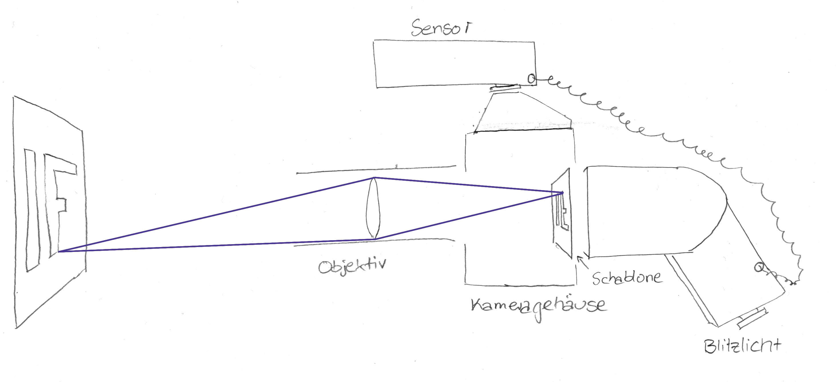 Principle of operation of Image Fulgurator